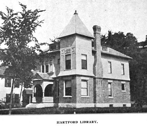 Library in Vermont